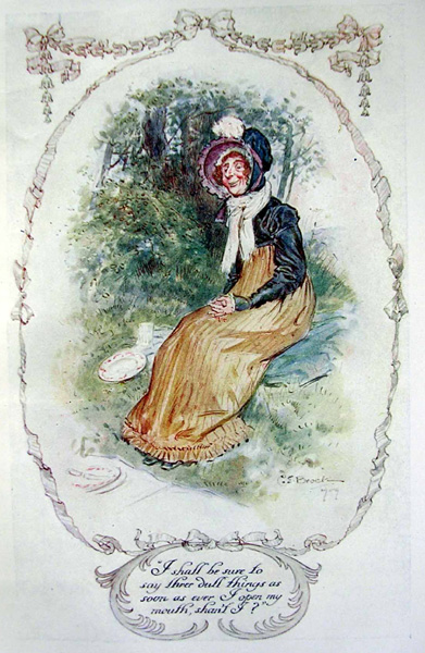 Colour illustration of a 1909 edition of Emma (Jane Austen's novel), by C. E. Brock (died 1938)